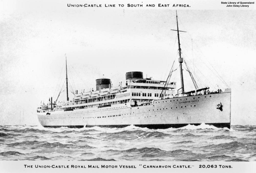 Union-Castle liner MV Carnarvon Castle, as built in 1926 with two funnels